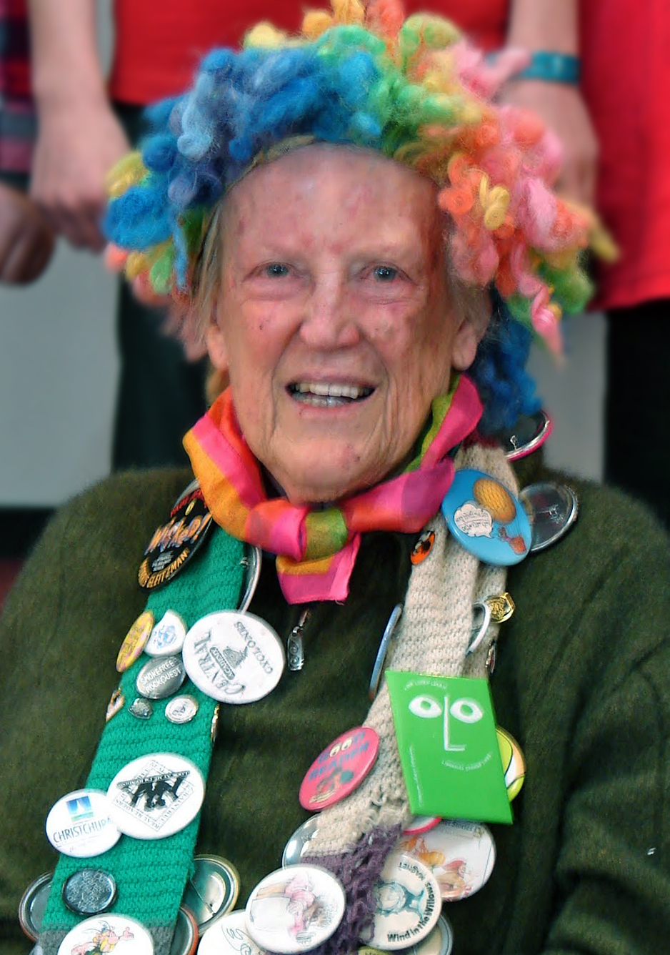 New Zealand children and young adult's author Margaret Mahy at the Kaiapoi Club (formerly Kaiapoi Workingmen's Club), 27 July 2011. Waimakariri District Libraries organised the event, called "An Audience with Margaret Mahy", in which she read several of her favourite books to a group of local children during the school holidays. She is wearing her characteristic rainbow-coloured wig, a multi-coloured scarf with many badges attached, and another smaller multi-coloured scarf.